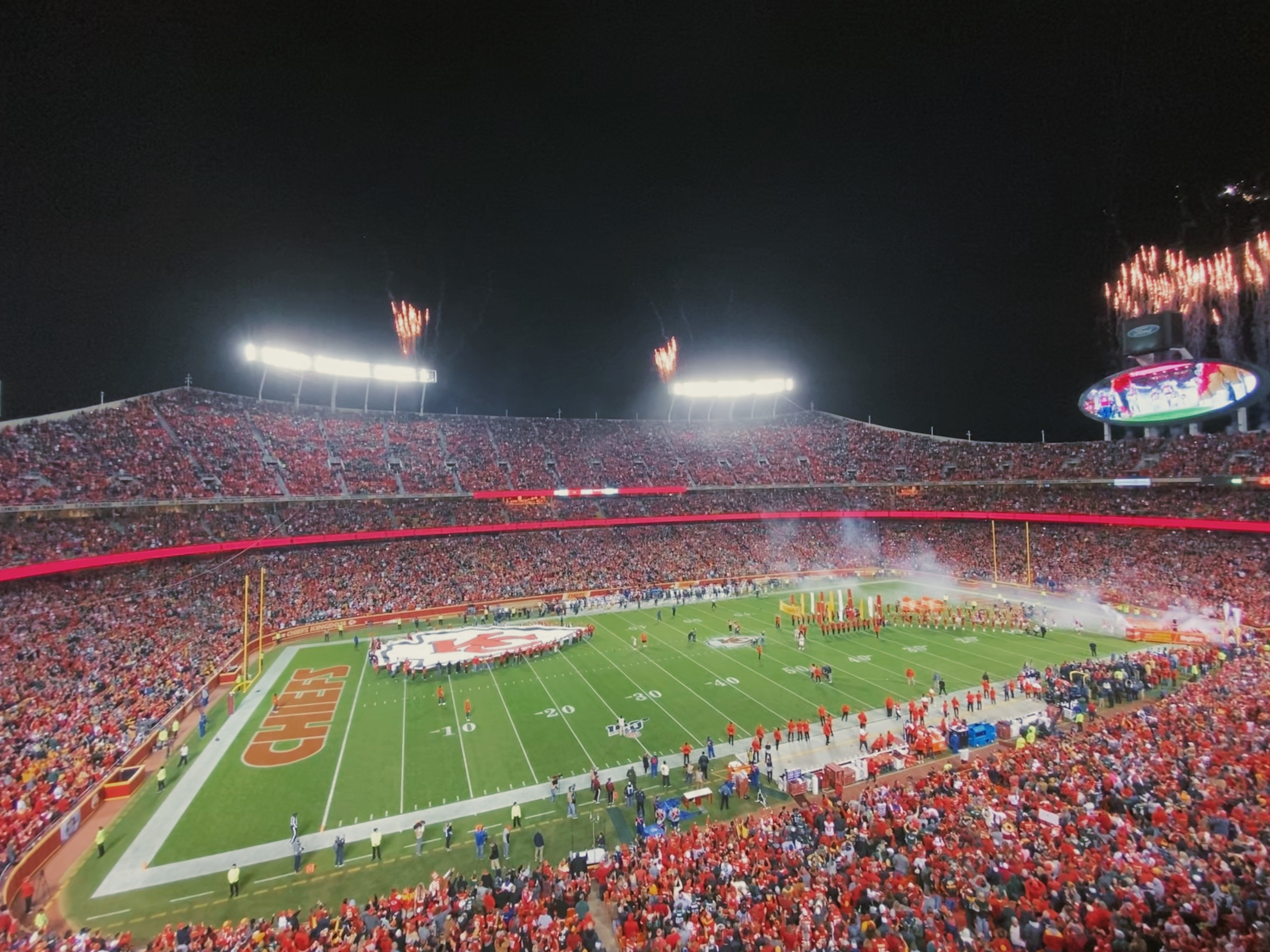 Arrowhead Stadium (October 27, 2019)